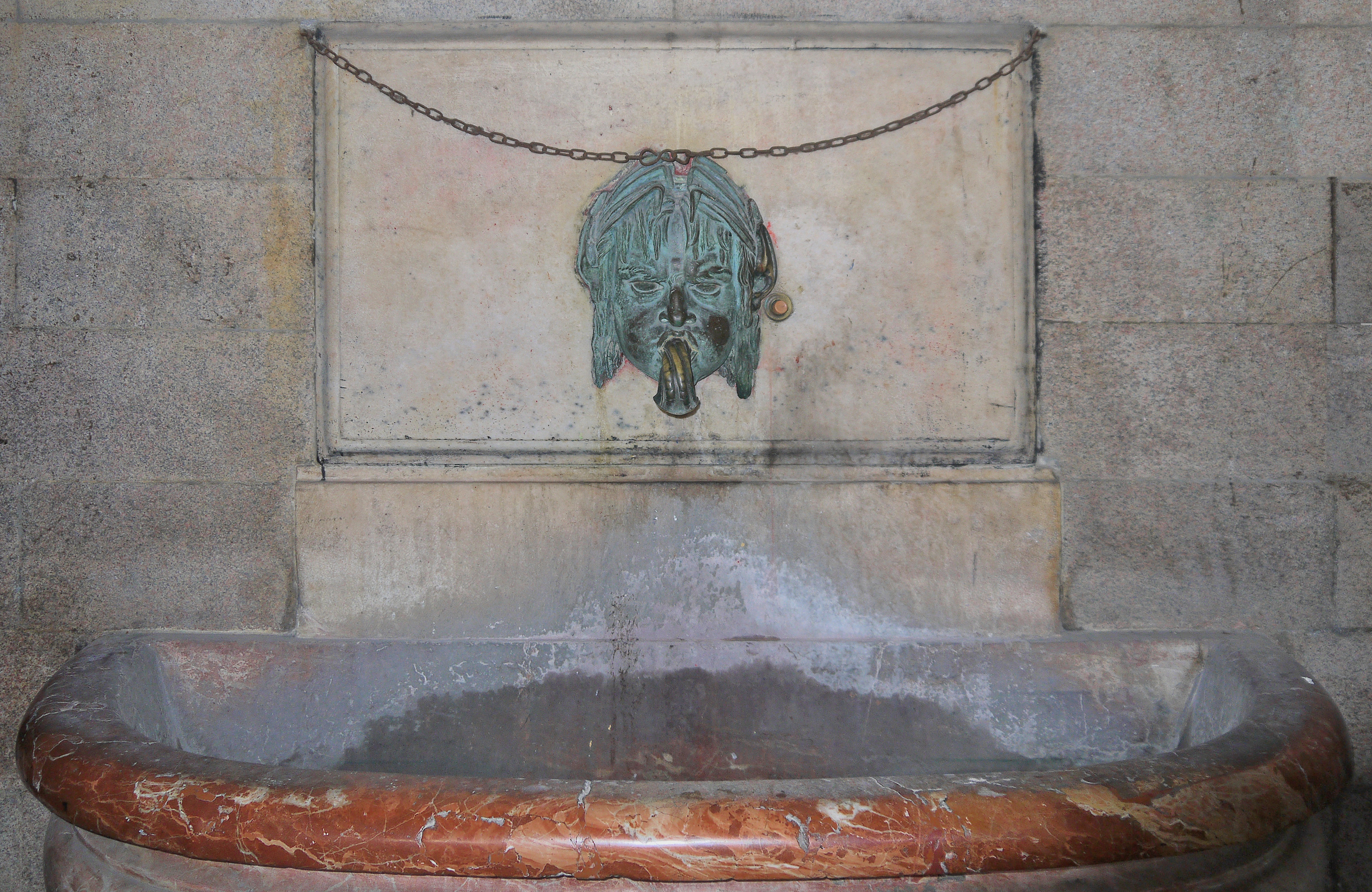 Water fountain.